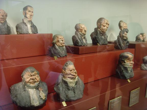 Painted clay busts by Honoré Daumier, c. 1832[1], Musée d'Orsay